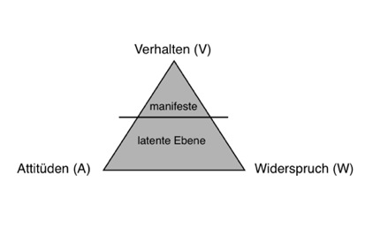 Johan Galtung's conflict triangle (German)